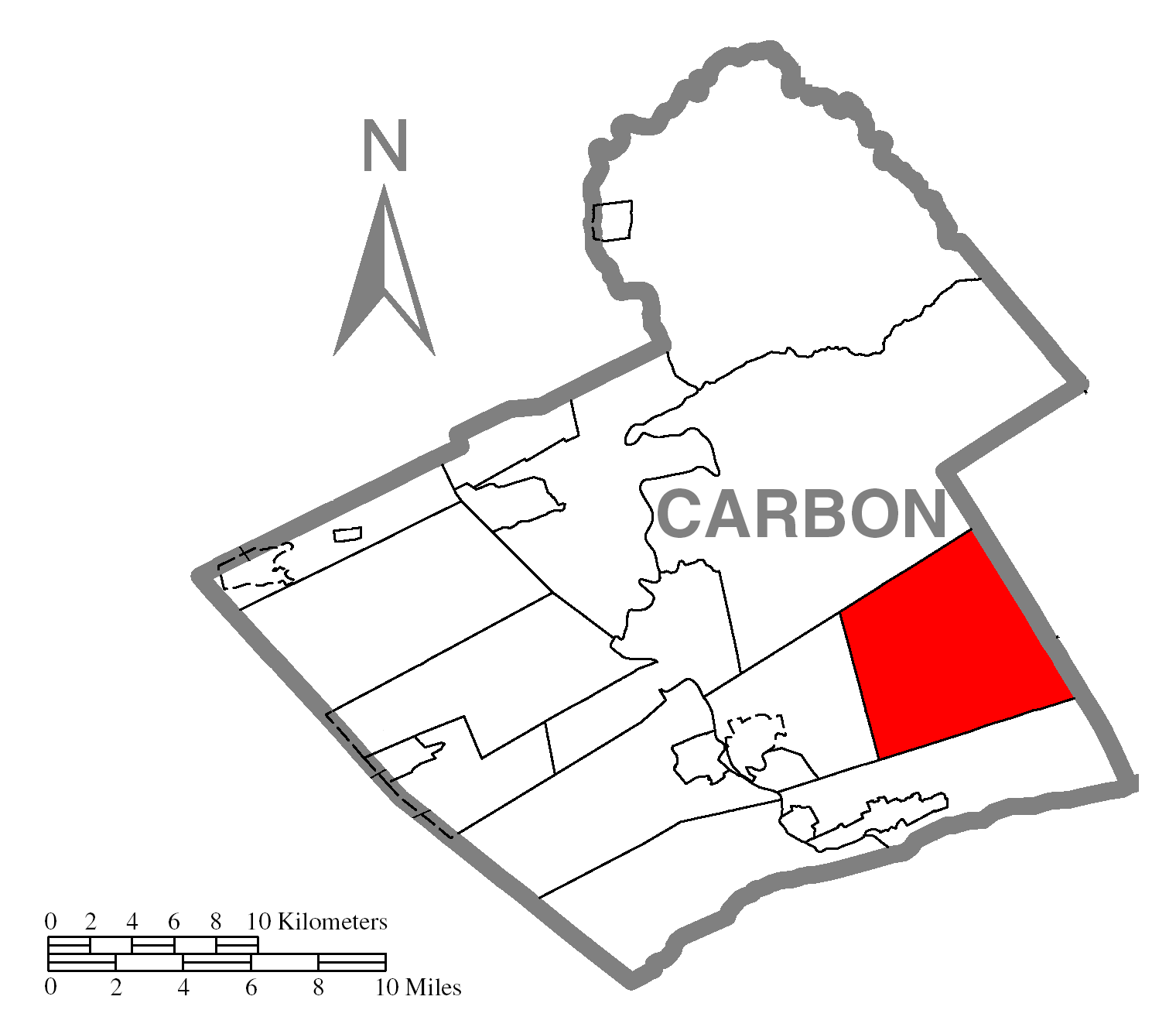 A map of Carbon County showing Towamensing Township, Pennsylvania (alternate) highlighted on the map.